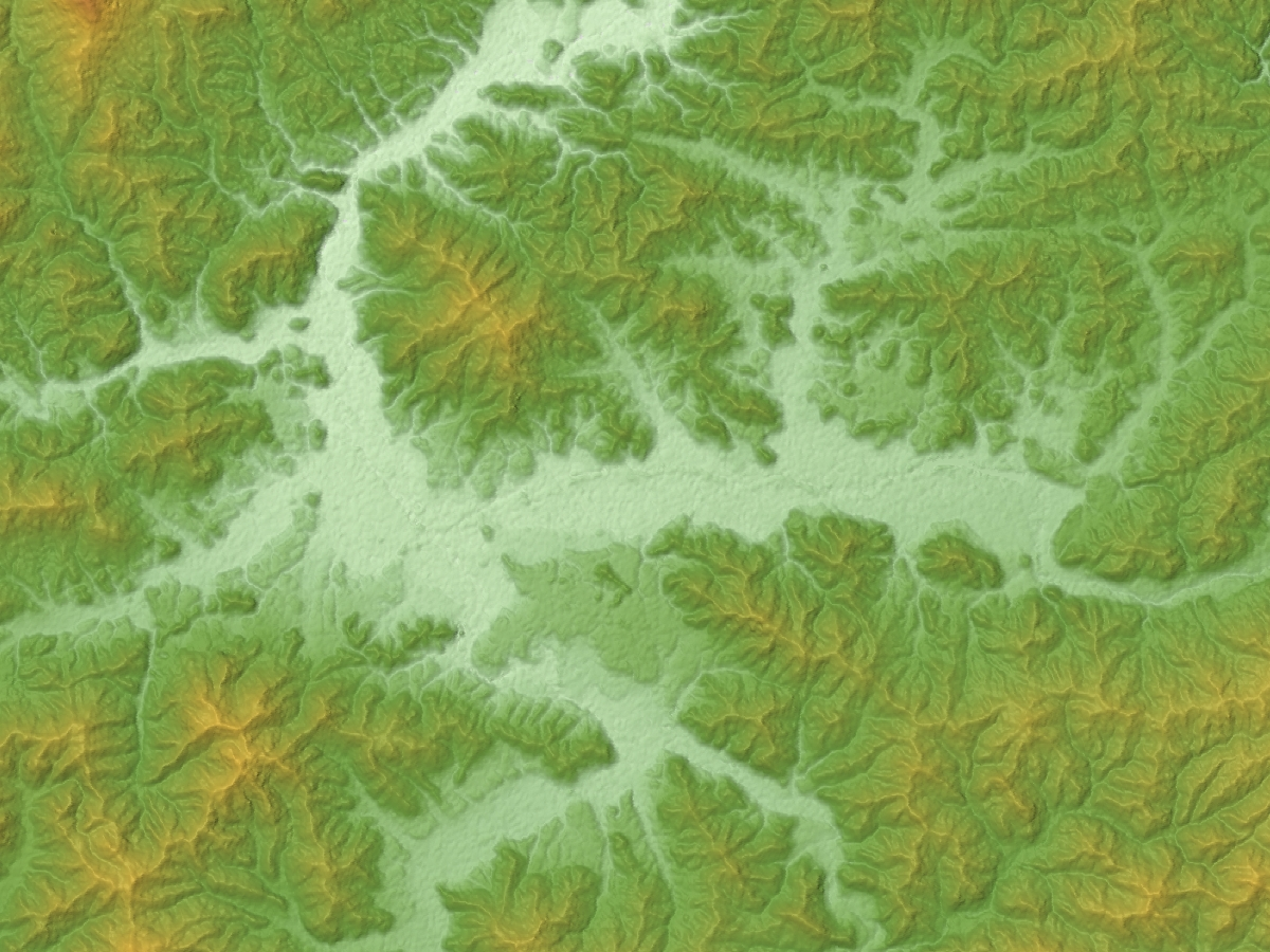 Fukuchiyama Basin in Kyoto Prefecture, Honshu, Japan.